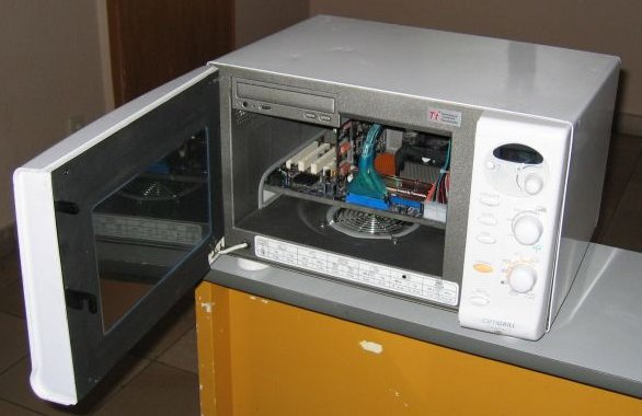 Casemodding microwave